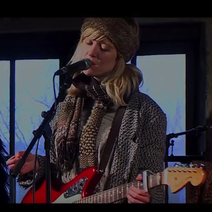 Benjamin [MetaalKathedraal sessie] as performed by Amber Arcades